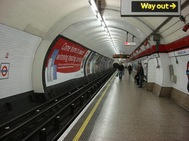 Chancery Lane tube station, Eastbound platform